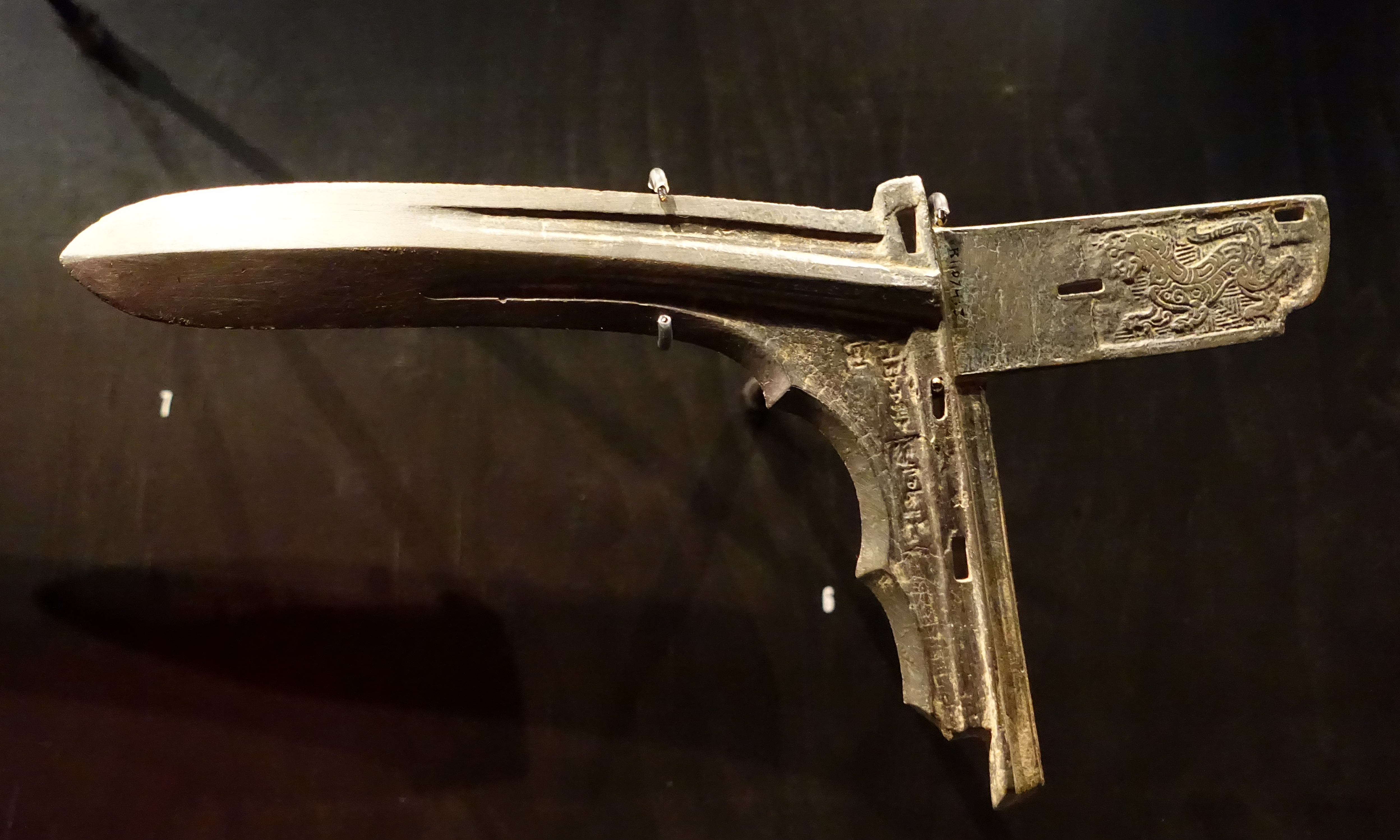 Exhibit in the Östasiatiska museet, Stockholm, Sweden. This artwork is old enough so that it is in the public domain.